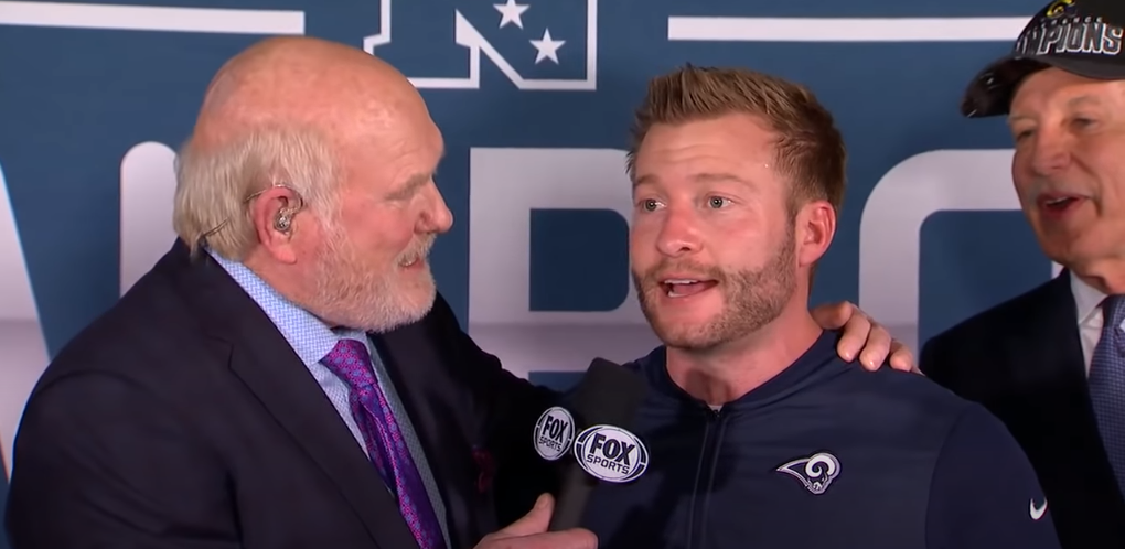 In 2019